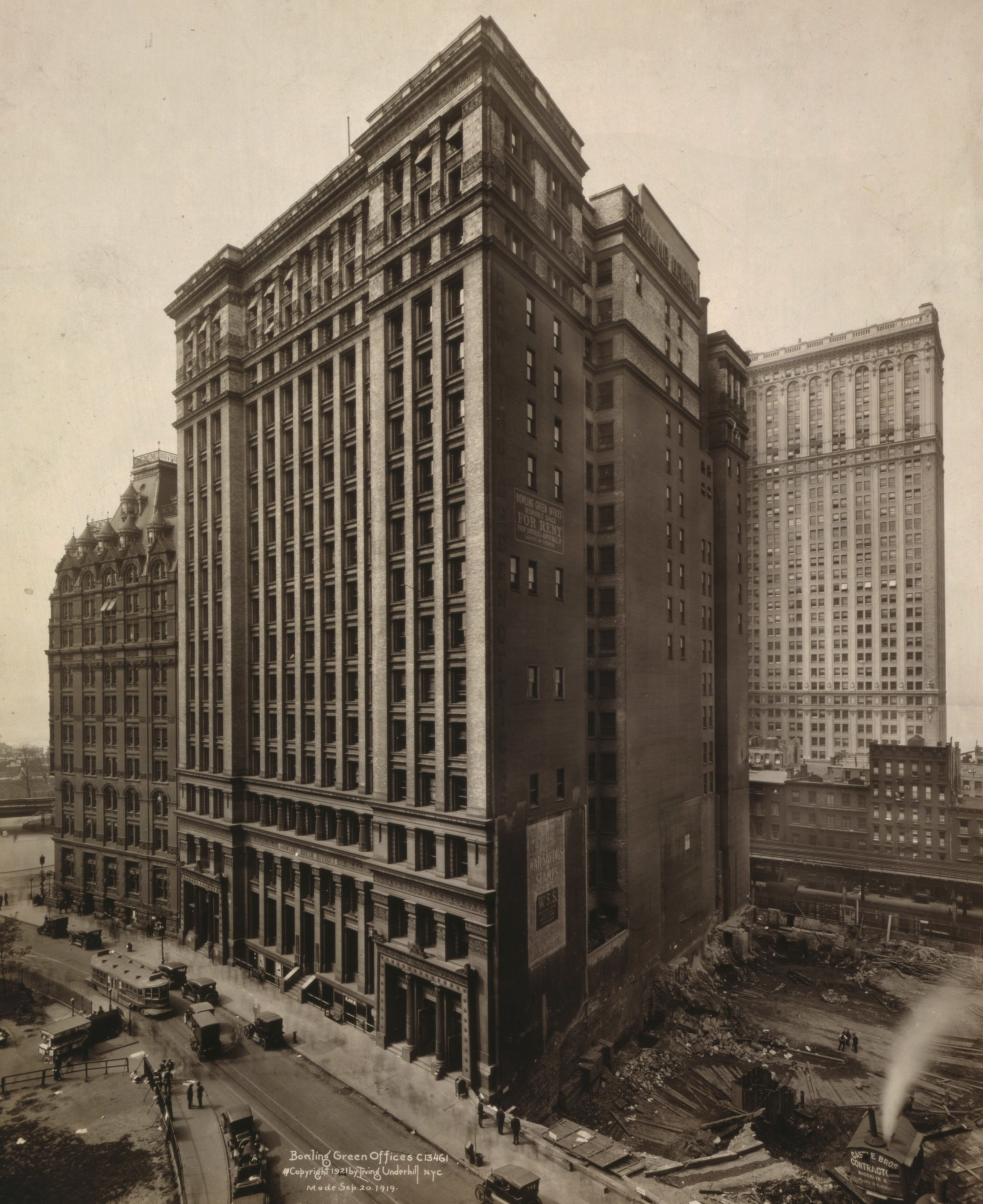 Title: Bowling Green Offices Abstract/medium: 1 photographic print.